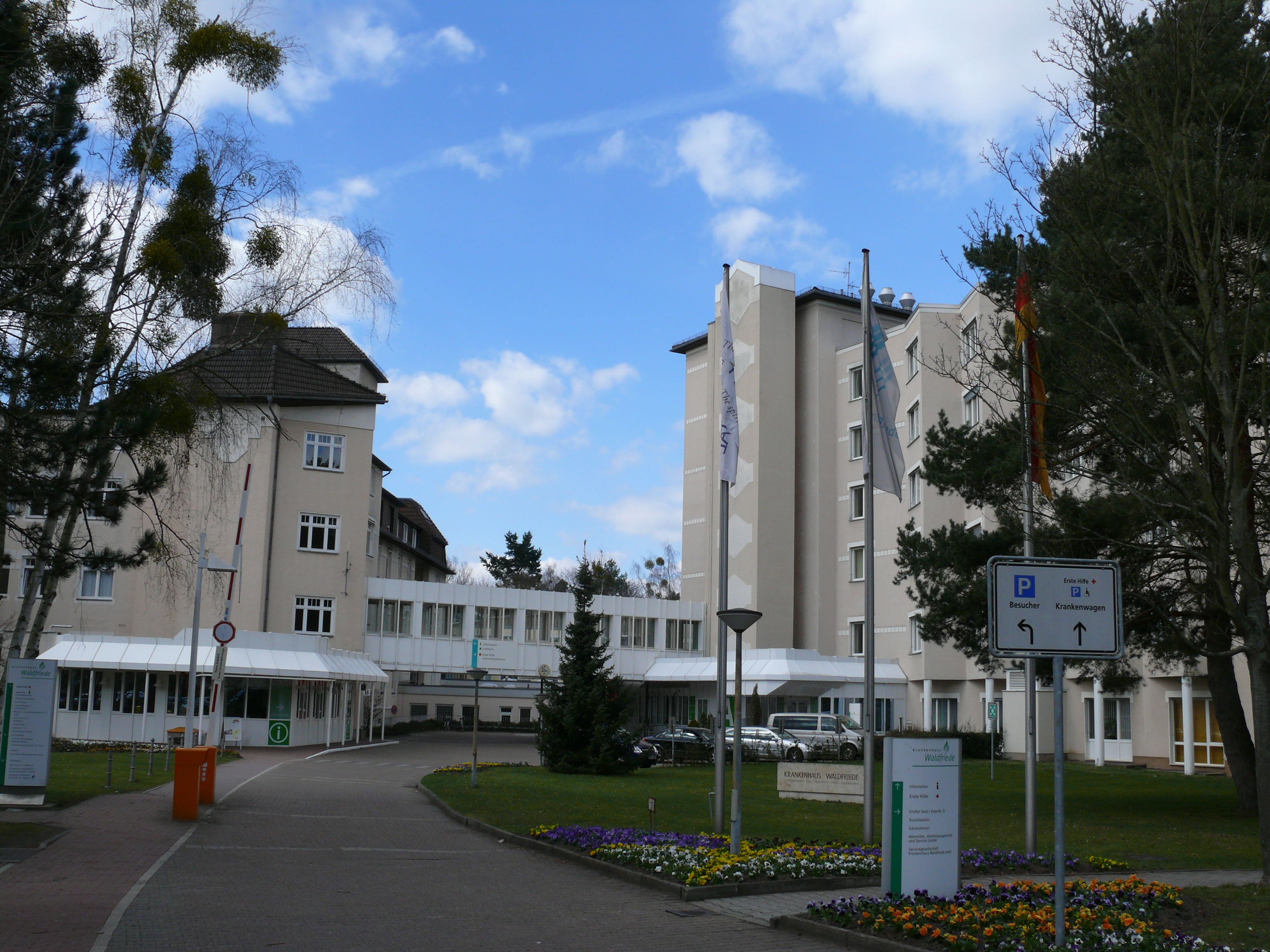 Berlin-Zehlendorf Krankenhaus Waldfriede